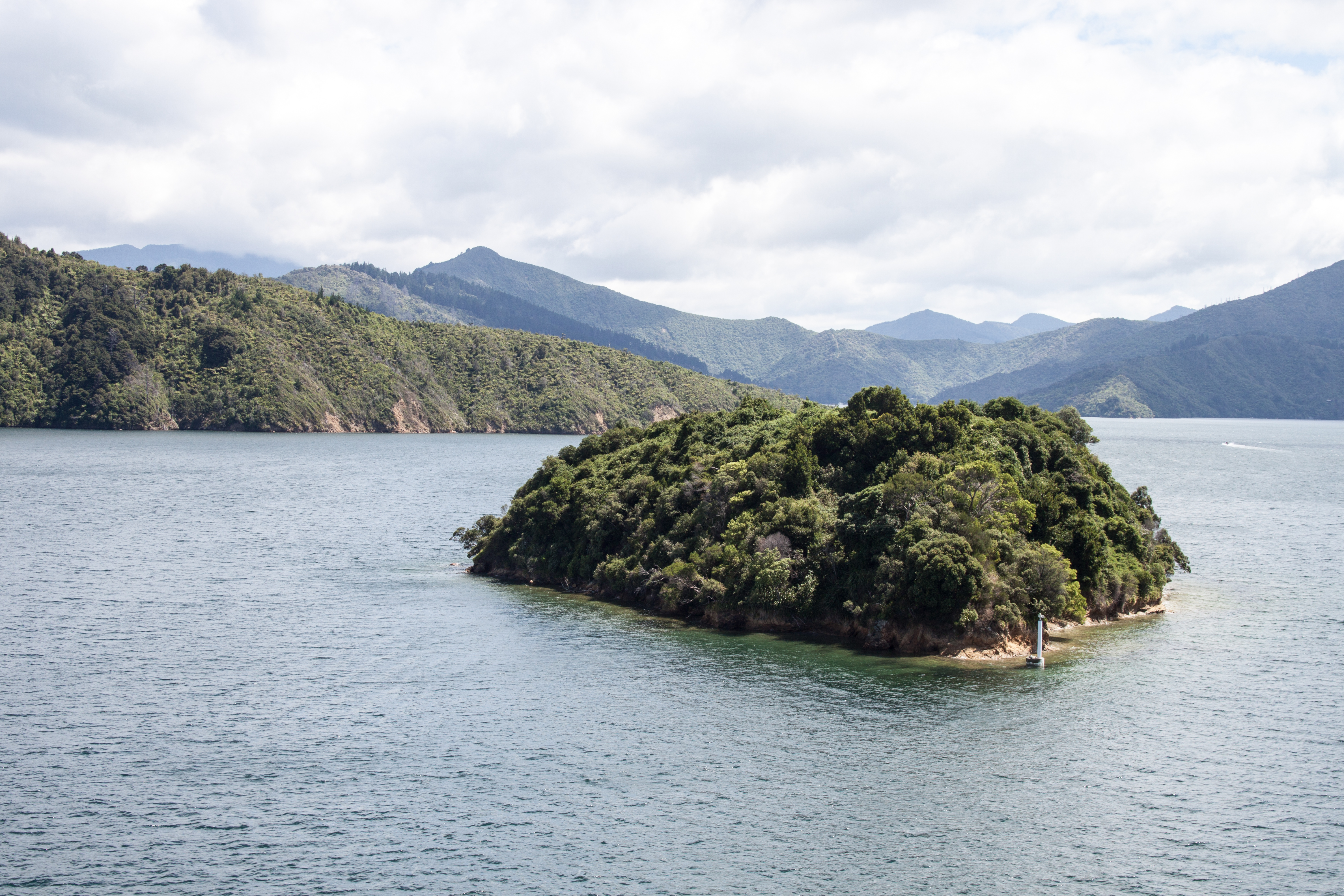 Mabel Island, Picton Harbour